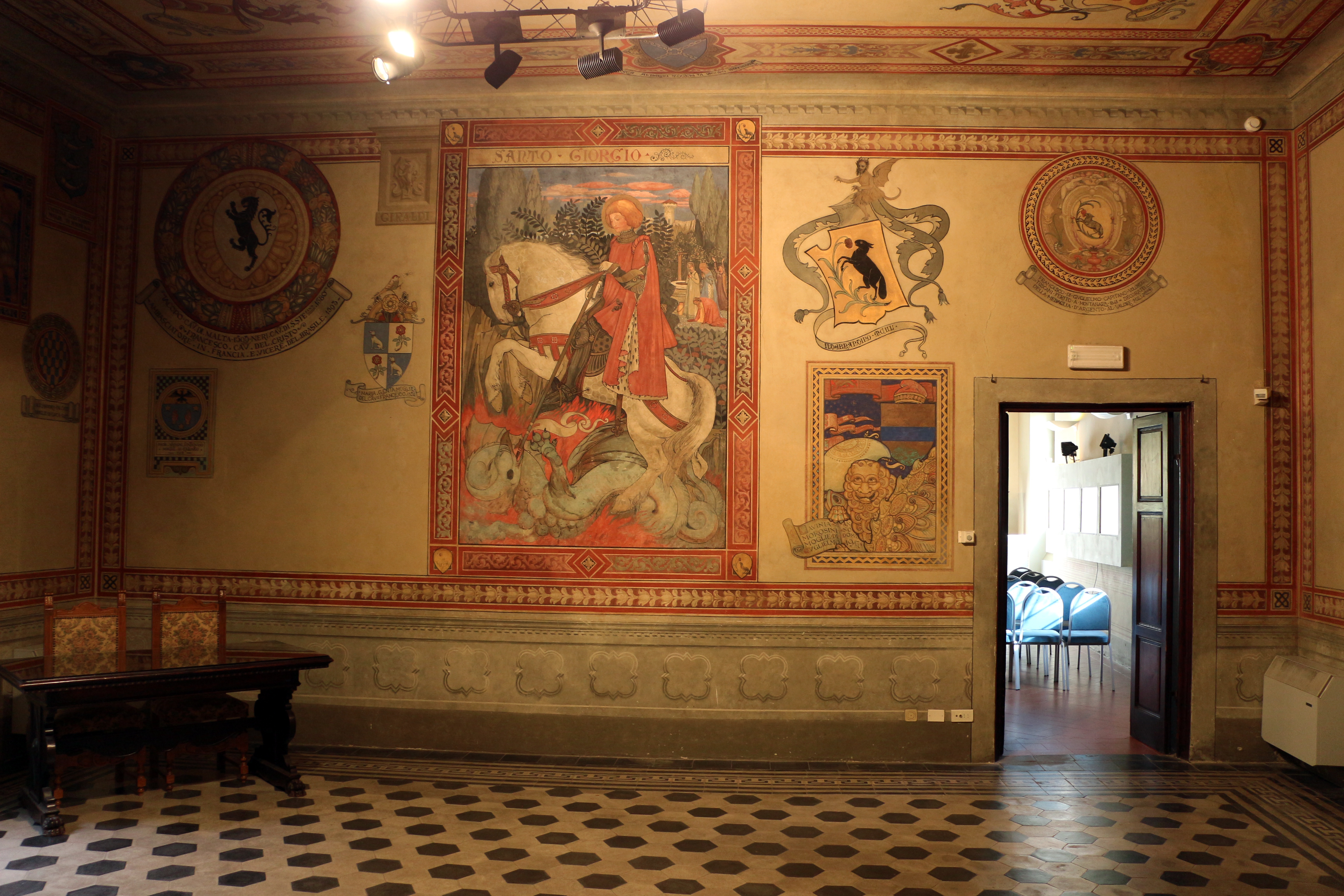 Borgo San Lorenzo